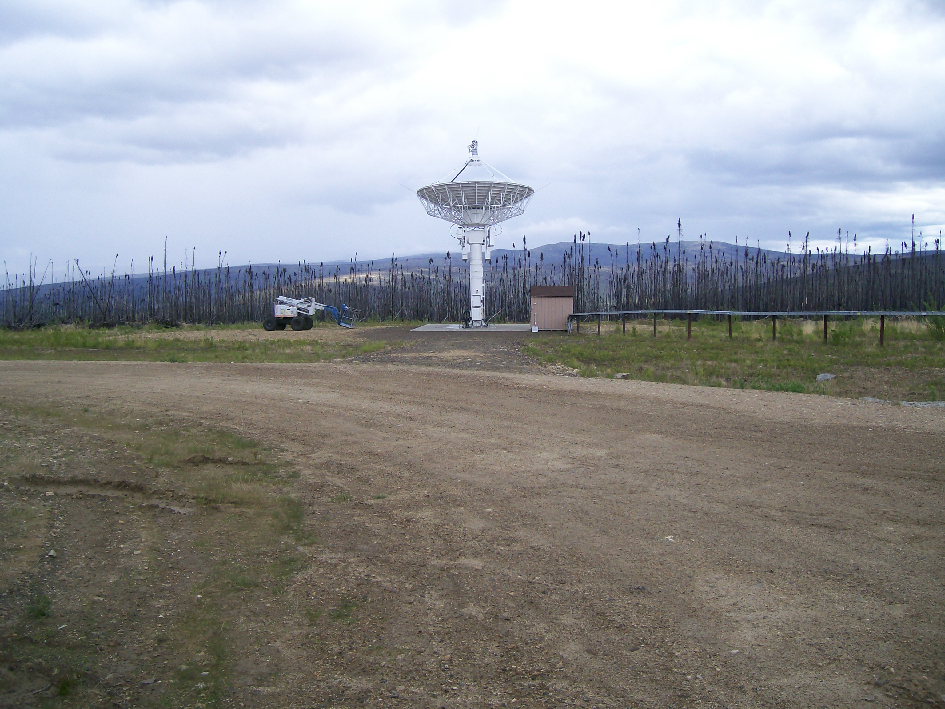 Poker Flat Alaska.